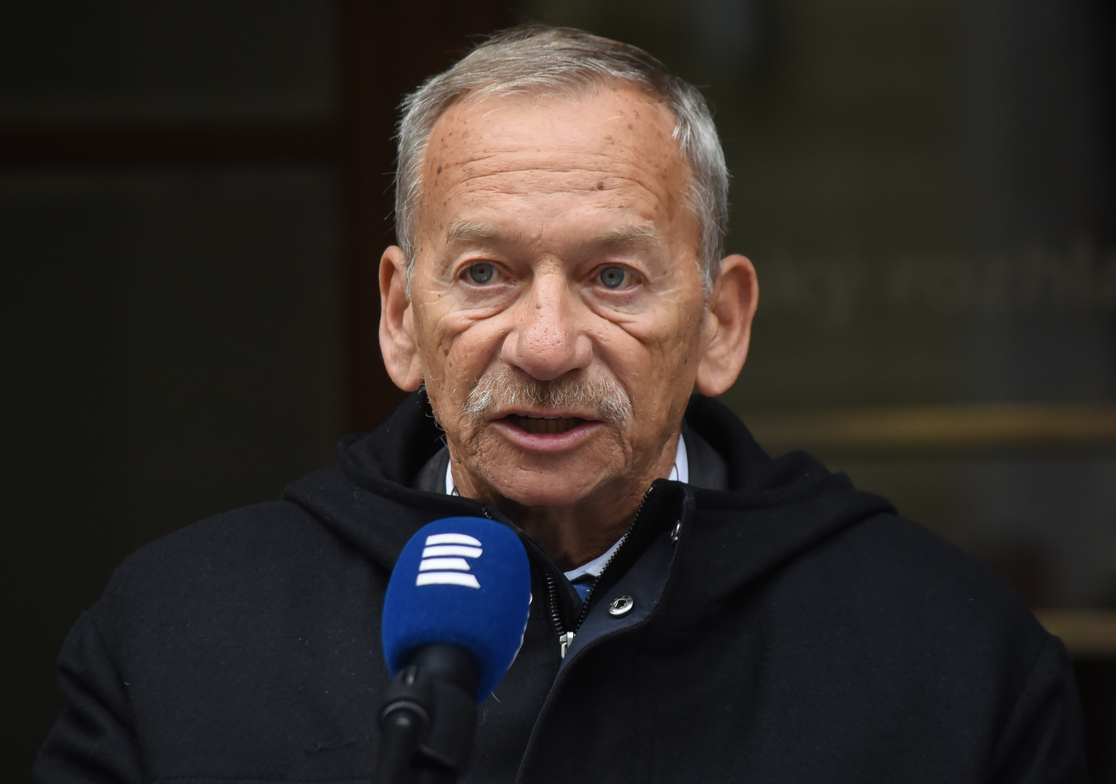 Jaroslav Kubera, President of Senate of the Parliament of the Czech Republic